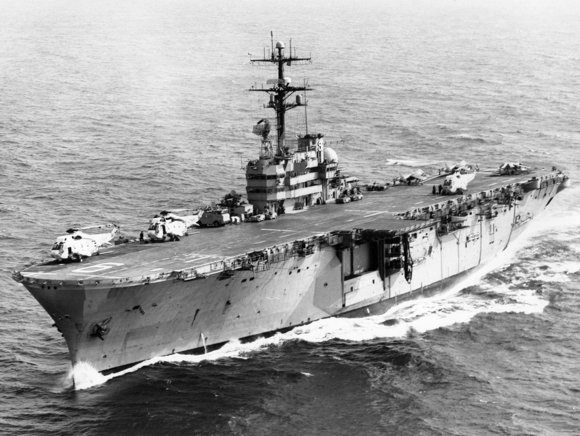 The U.S. Navy amphibious assault ship USS Guam (LPH-9) underway in 1972-1974 in her role as an interim Sea Control Ship. Note the single Hawker Siddeley AV-8A Harrier and three Sikorsky SH-3H Sea Kings on deck.